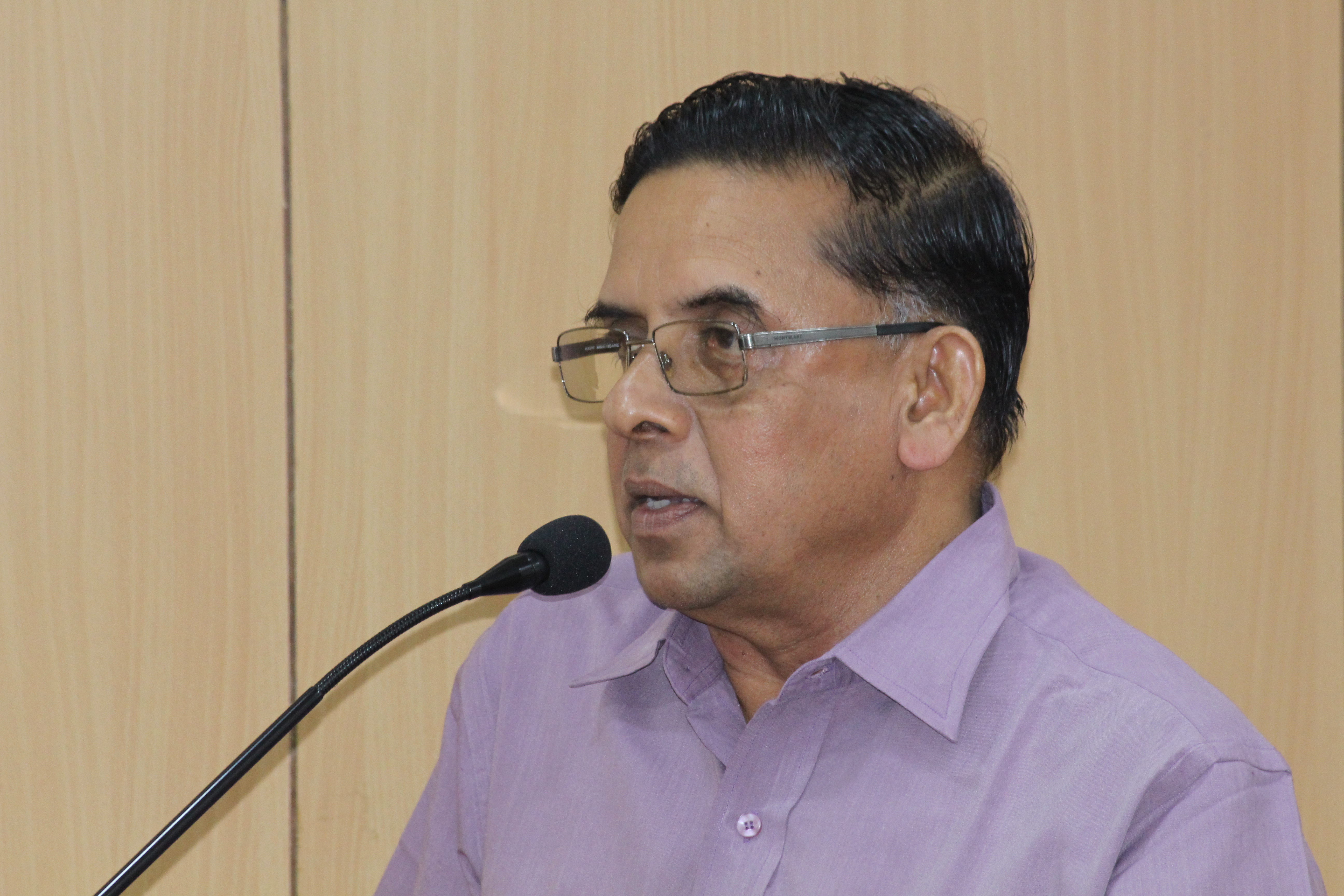 Prabha Varma, Indian poet, lyricist and journalist